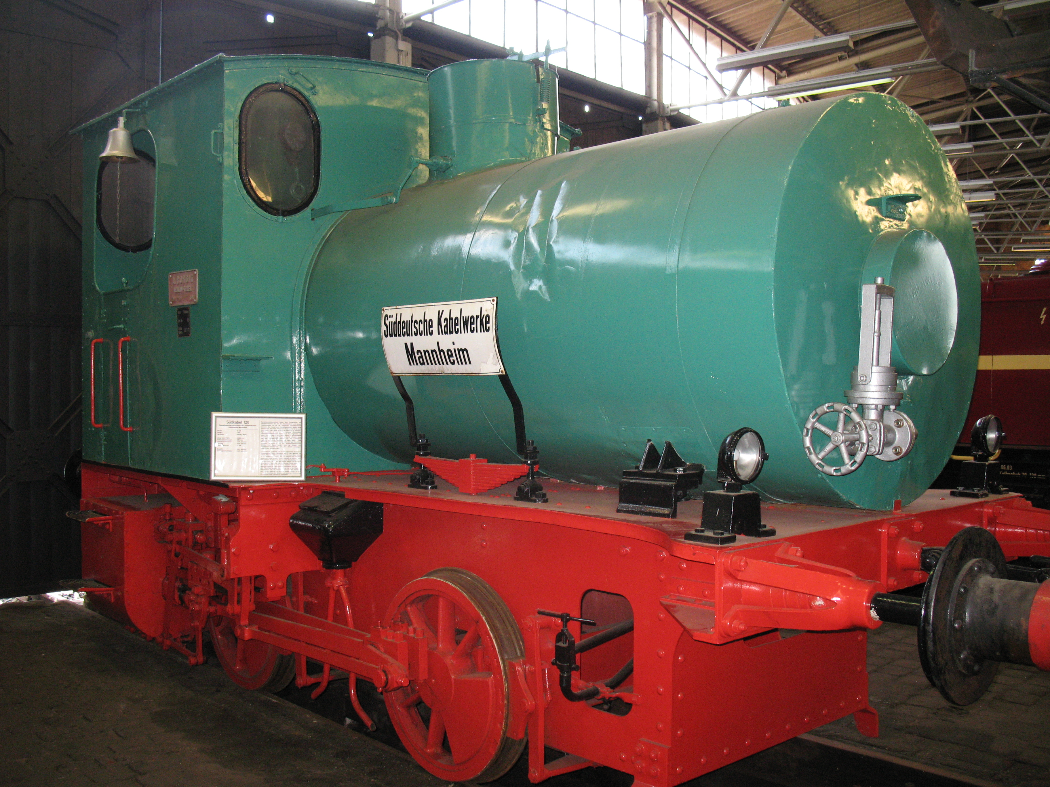 Fireless locomotive "Südkabel 120", constructed 1910 by Borsig, Berlin; Railroad Museum Bochum-Dahlhausen